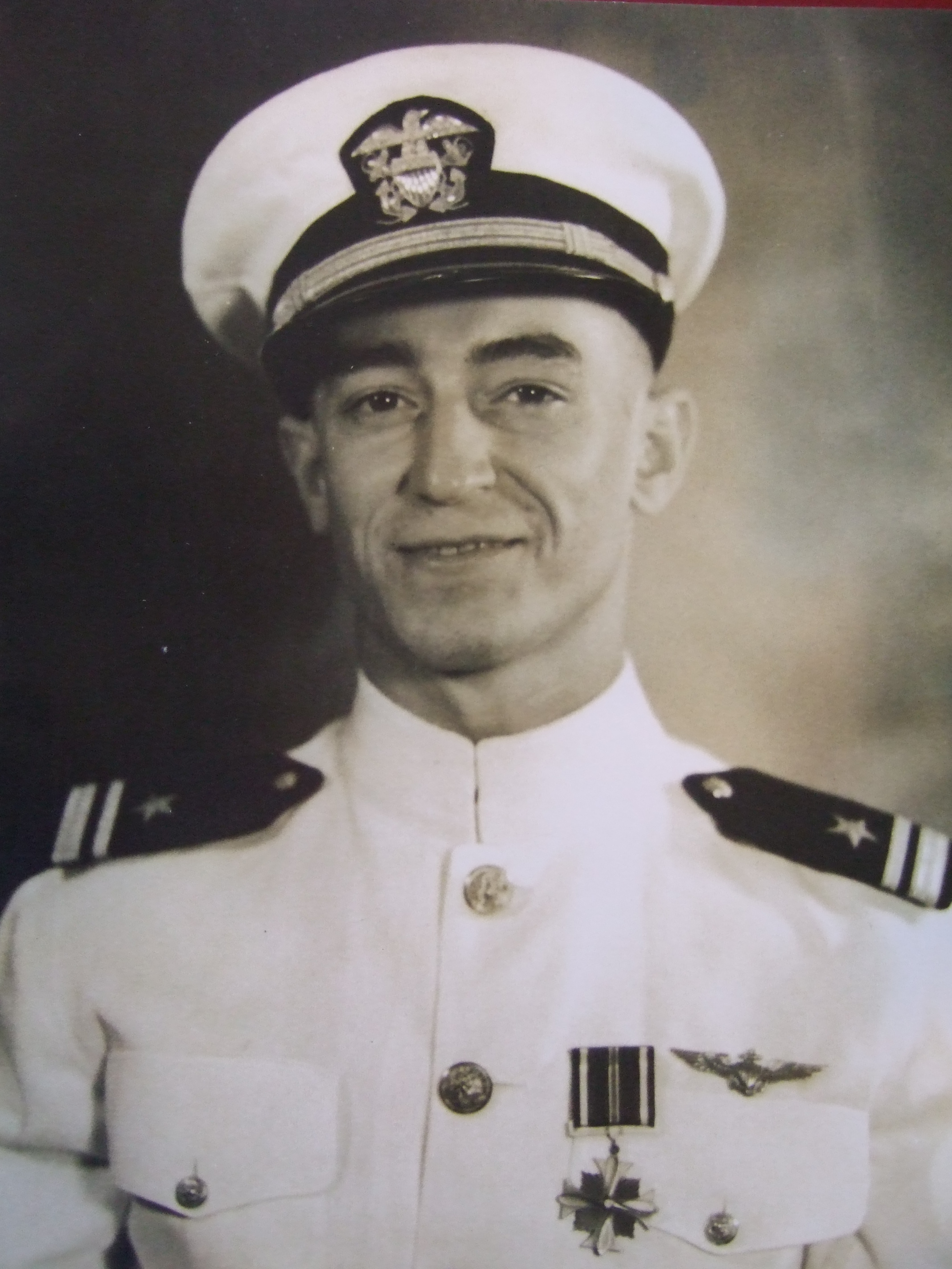 This image of N. Jack "Dusty" Kleiss was taken on May 27, 1942, after he received the Distinguished Flying Cross for his actions at the Battle of the Marshall Islands.